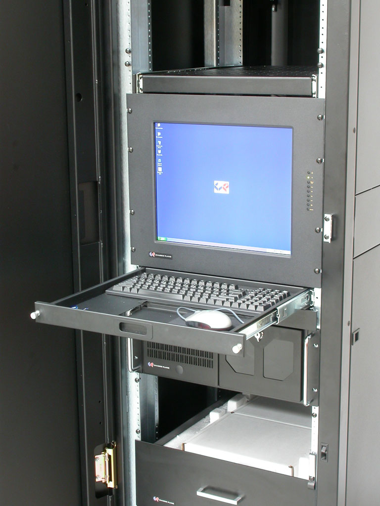 Chassis Plans 19" Rack Detail